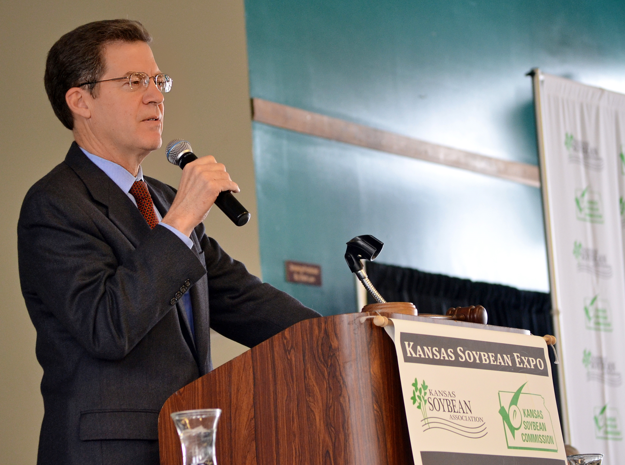 in Topeka